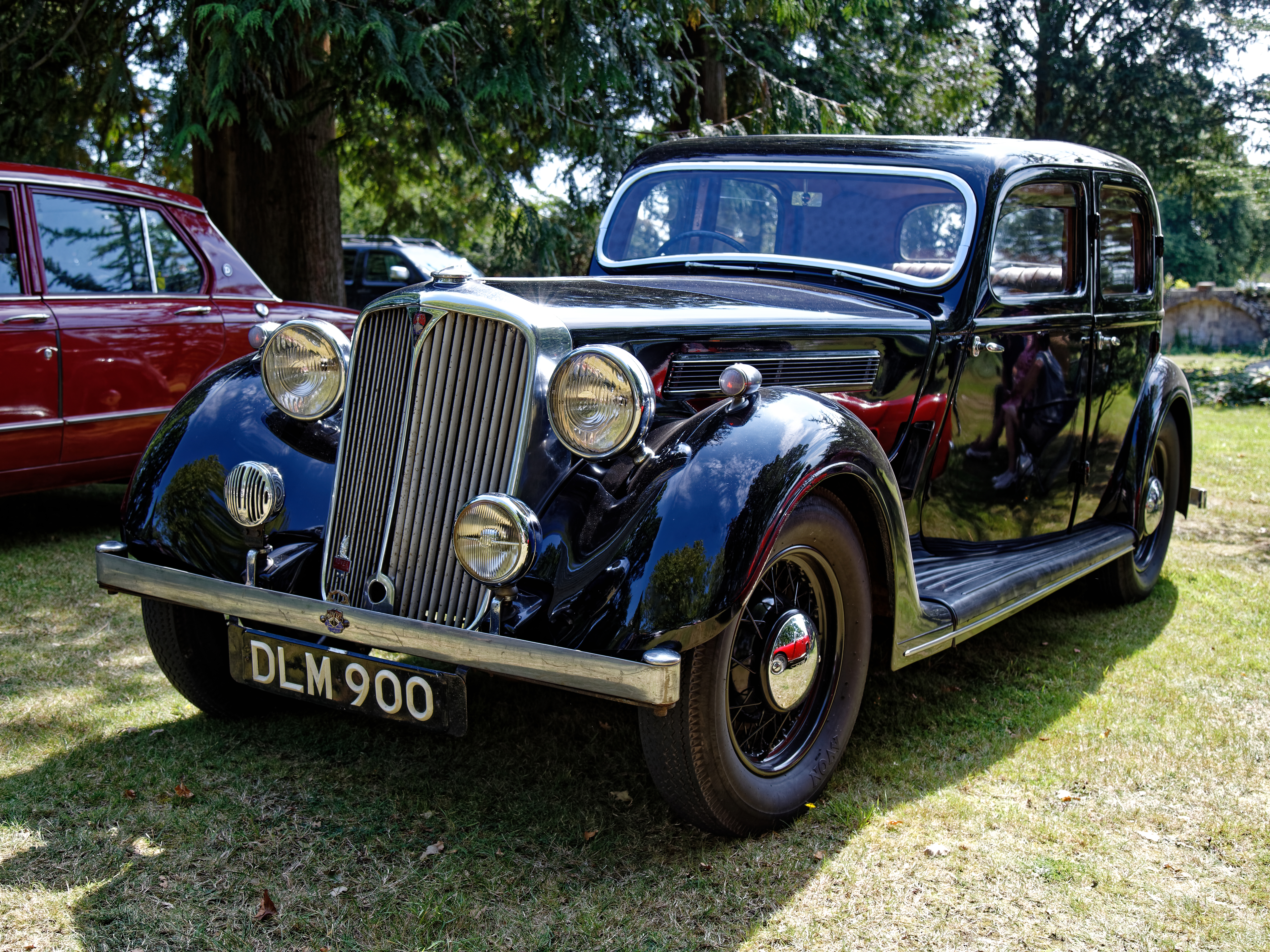 A 1936 Rover 16 P2 2147cc 6-light saloon, at a house and gardens open day at Copped Hall, aka Copt Hall or Copthall, a Grade II listed country house, 1.5 miles (2 km) west from the town of Epping, Essex, England. The house and its ancillary buildings are within the civil parish of Epping Upland, with the larger part of the gardens to the west, in Waltham Abbey.The present mid-18th-century Georgian hall replaced an earlier Elizabethan hall by Sir Thomas Heneage. It was destroyed by fire in 1917, with it and its gardens suffering further 20th-century destruction and neglect. The property is being restored by The Copped Hall Trust.Mobile device view (2019): Wikimedia makes it difficult to immediately view photo groups related to this image. To see its most relevant allied photos, click on Copped Hall, Essex automobiles, and this uploader's Vehicle photos. You can add a beta click-through 'categories' button to the very bottom of photo-pages you view by going to settings... three-bar icon top left.Desktop view (2019): Wikimedia makes it difficult to immediately view the helpful category links where you can find images related to this one in a variety of ways; for these go to the very bottom of the page.Camera: Canon EOS 6D Mark II with Canon EF 24-105mm F4L IS USM lens.Software: RAW file lens-corrected, optimized and converted with DxO PhotoLab 2 Elite, and further optimized with Adobe Photoshop CS2.